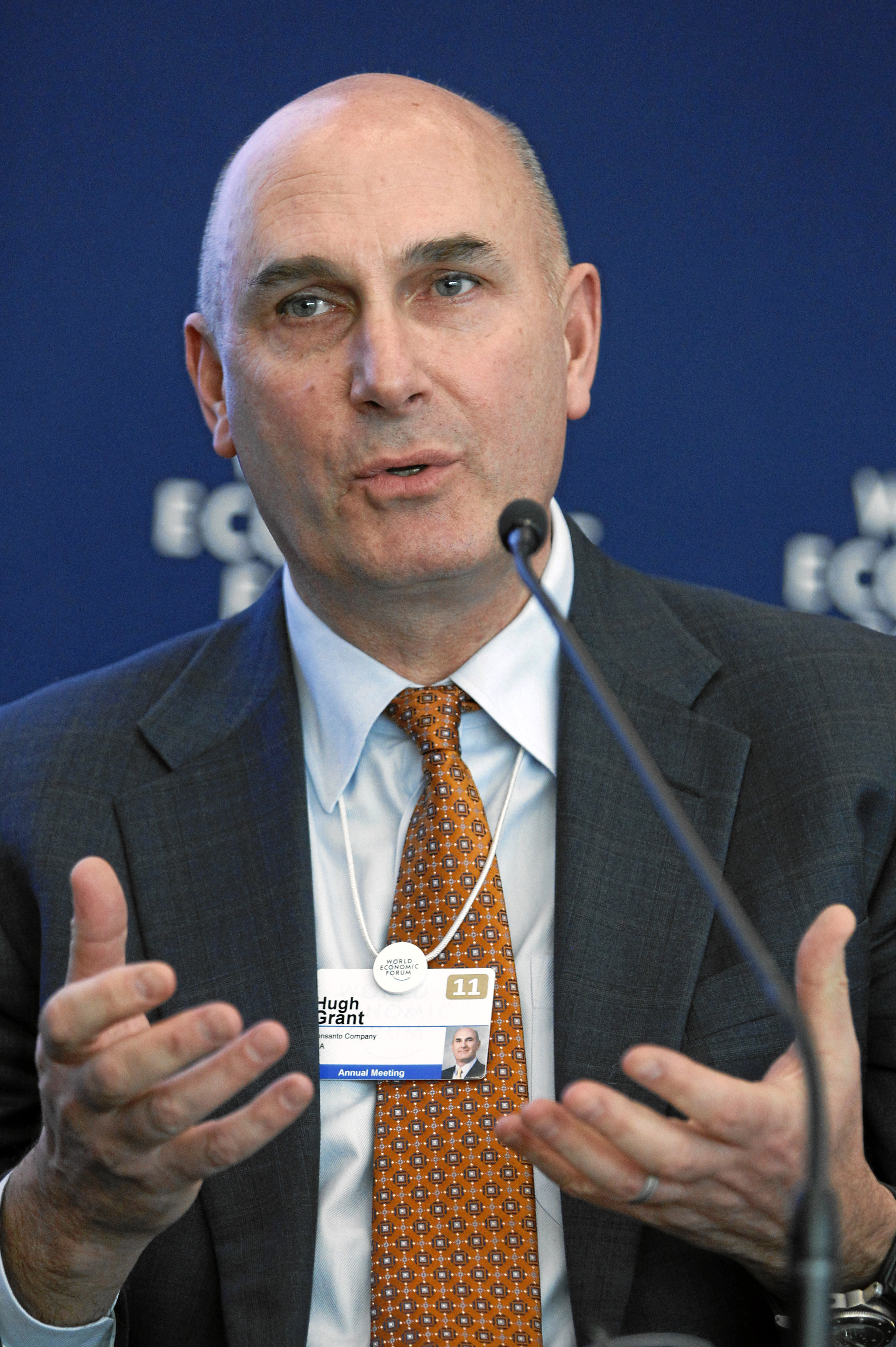 Hugh Grant, Chairman, President and Chief Executive Officer, Monsanto Company, USA, speaks during the session 'Genuine Green Growth: Development through Agriculture' at the Annual Meeting 2011 of the World Economic Forum in Davos, Switzerland, January 28, 2011.